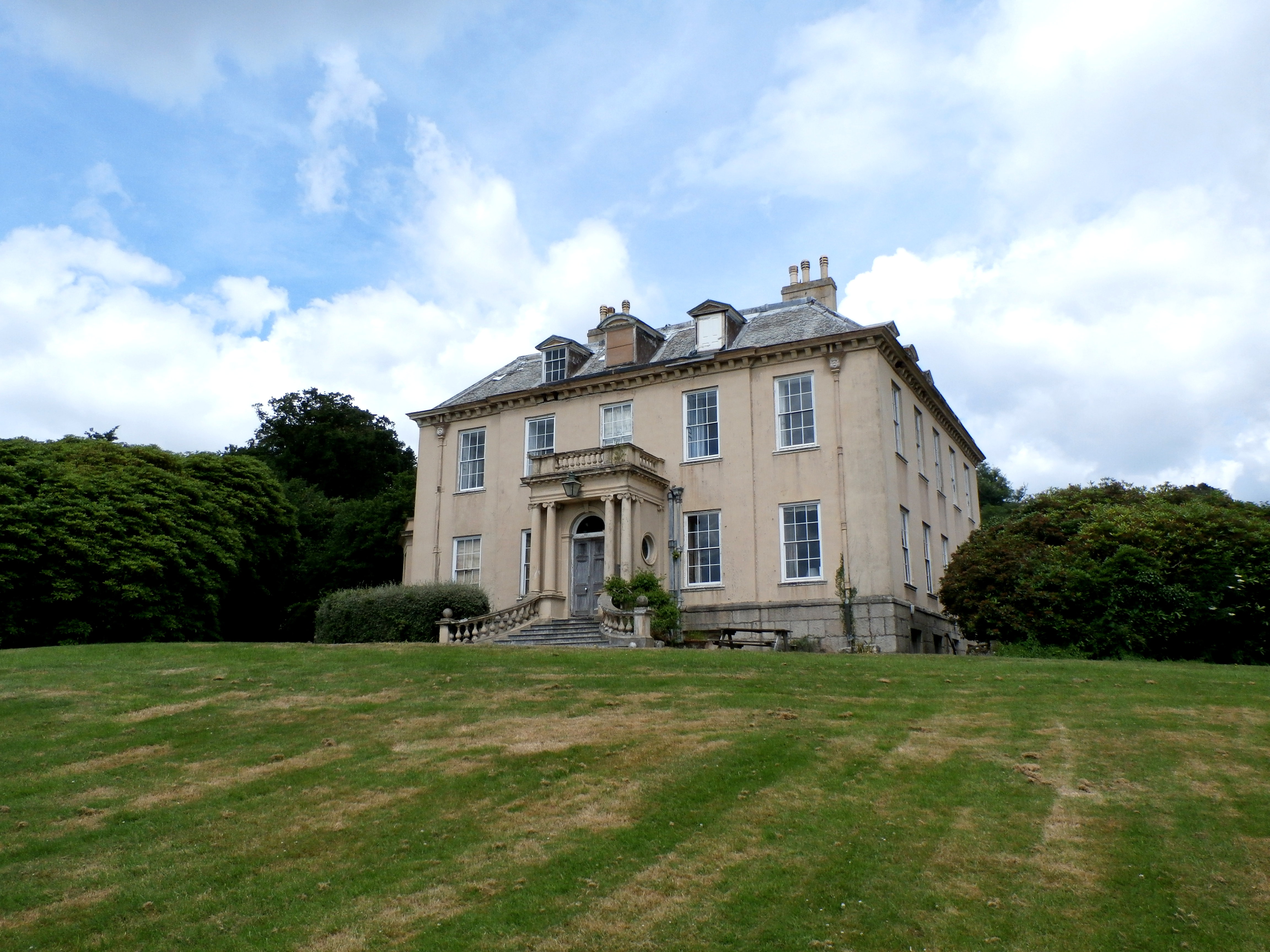 Newnham Park, Plympton St Mary, Devon